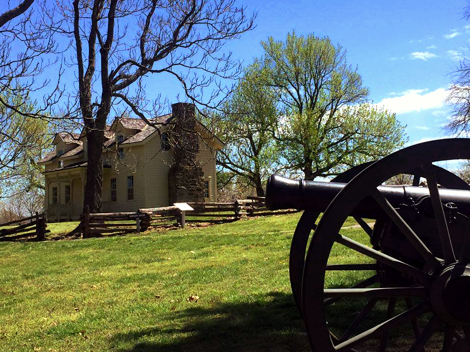 A Civil war cannon near the Borden House at the Prairie Grove Battlefield